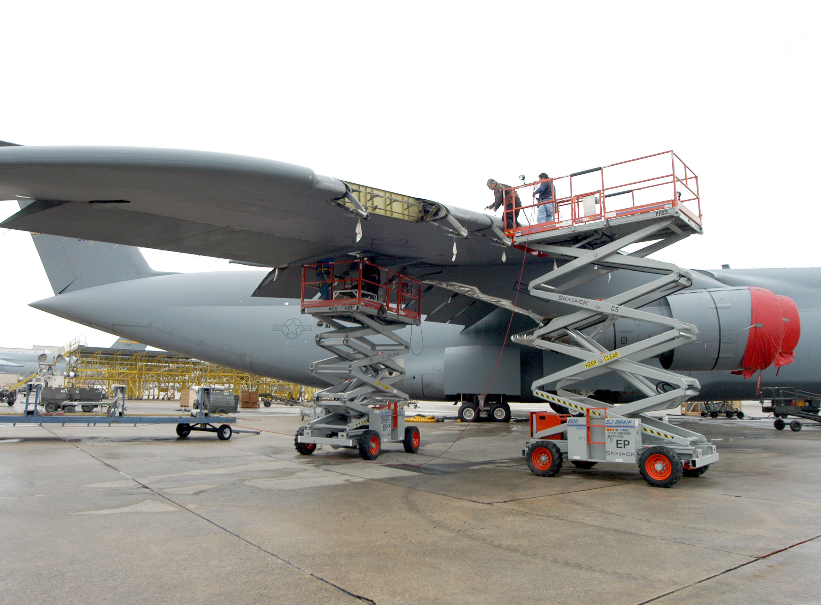 ROBINS AIR FORCE BASE, Ga. -- The C-5 Galaxy that was hit by a missile shortly after takeoff in Iraq on Jan. 8 receives permanent repairs here. The aircraft was returned to Air Mobility Command on Feb. 23. (U.S. Air Force photo by Sue Sapp)